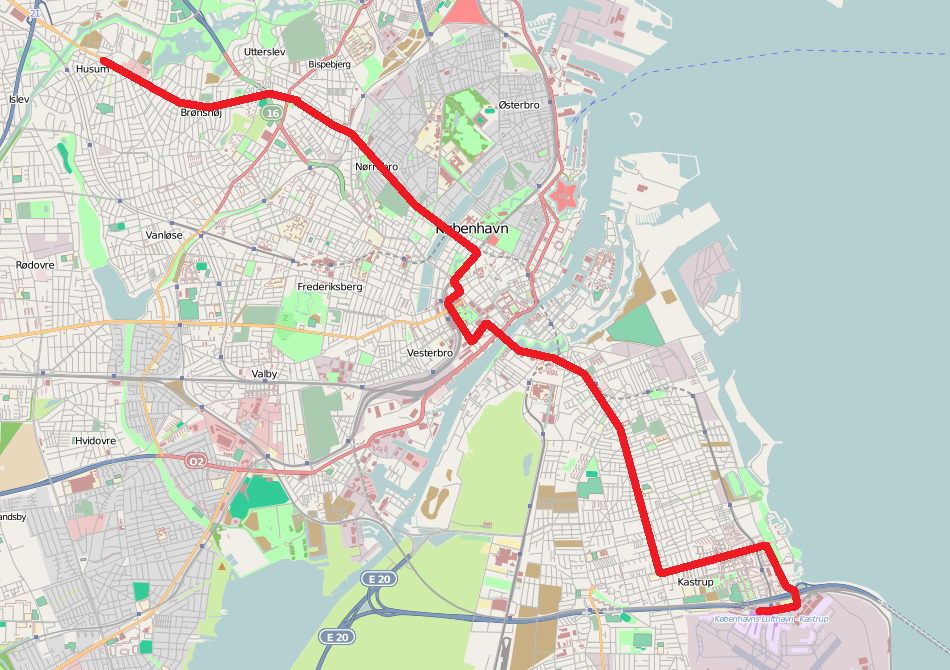 Map of Copenhagen bus line 5A between Husum Torv and Københavns Lufthavn, Kastrup as of october 2015.